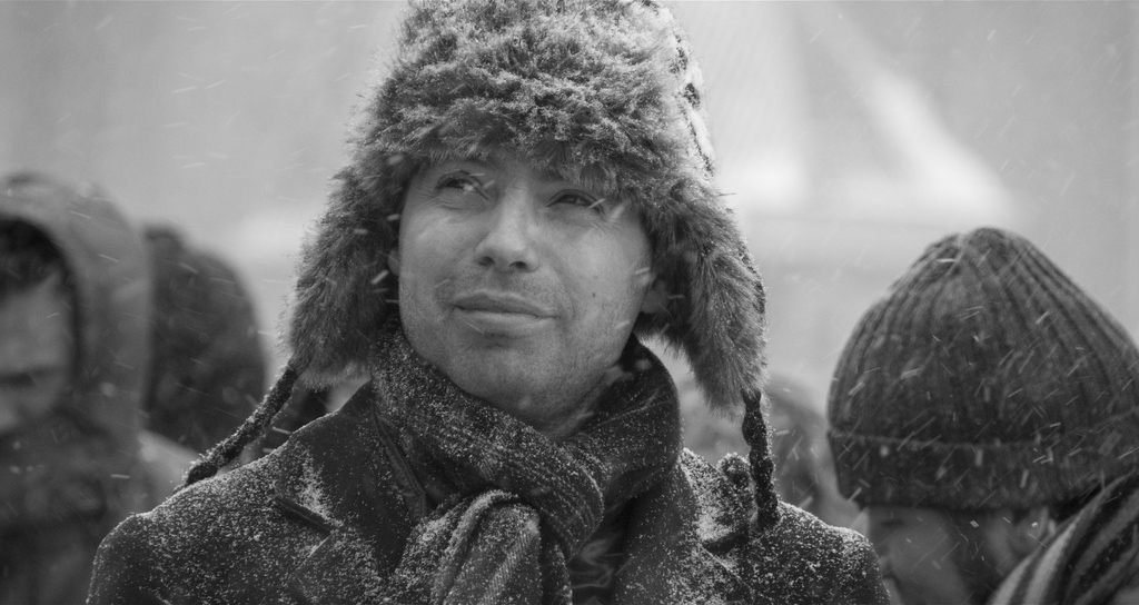 This is the last portrait from this serie in the snow. I think I was very lucky to make all these pictures in these circumstances. There were so many beautiful people outthere. In this picture is from one of the presentators of BNN Timur Perlin. I think this is one of the best of this serie. For all my Flickr friends, have a great and healthy 2010 !! View On Black